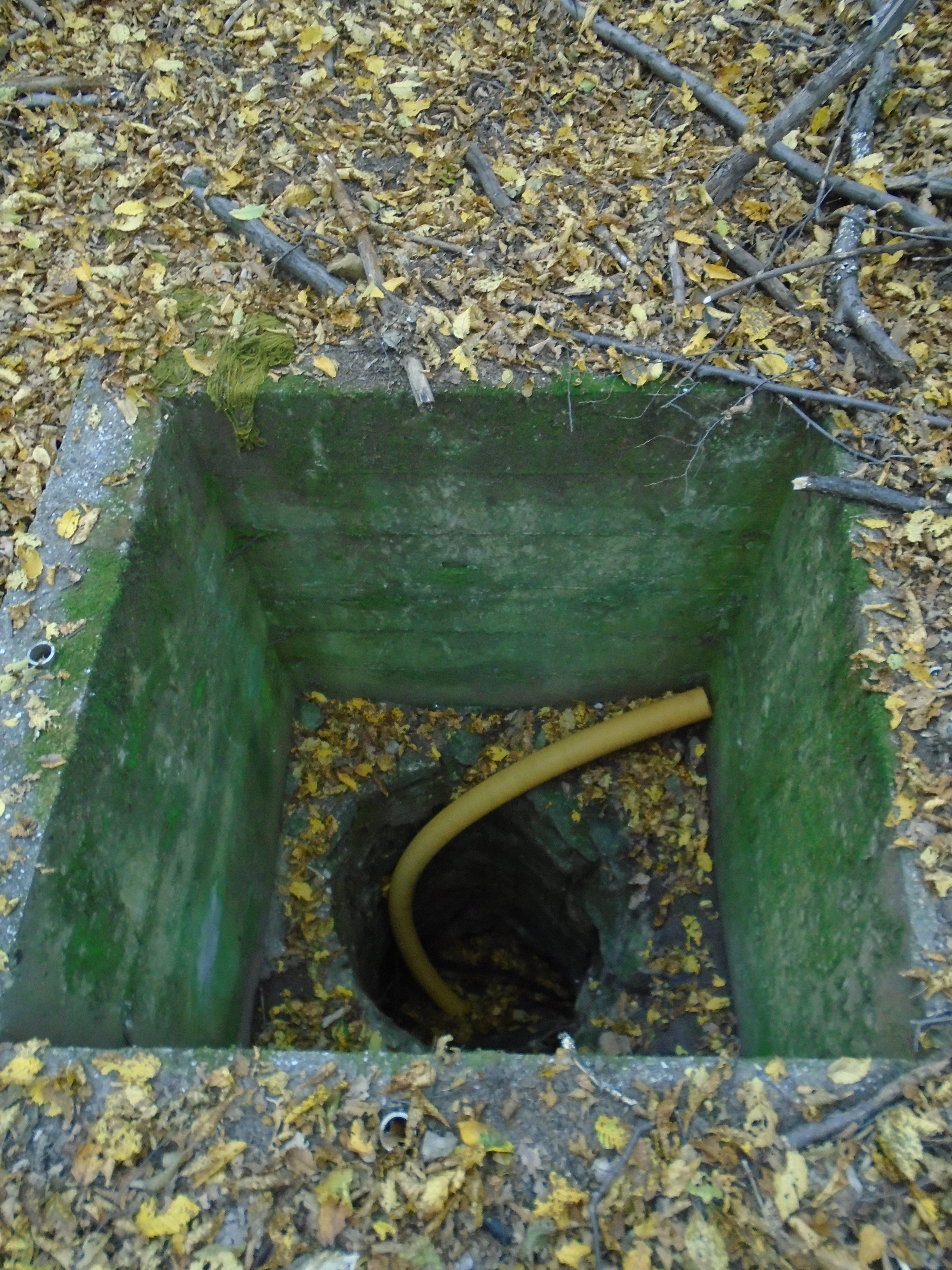 Entrance of Kuriszláni Cave.